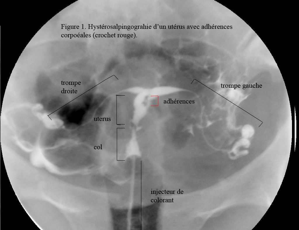 Hysterosalpingogram of uterus with intrauterine adhesions.